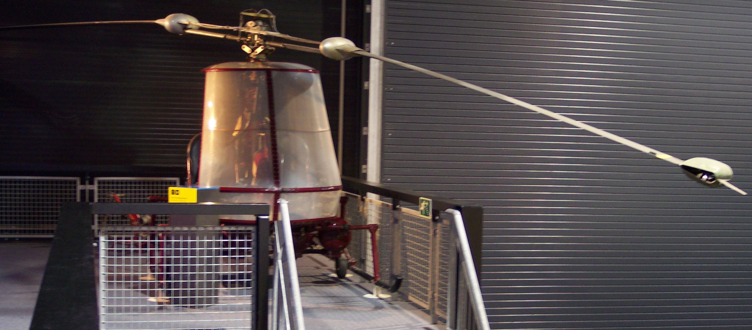 NED-Helicopter Industrie H 3 Kolibri